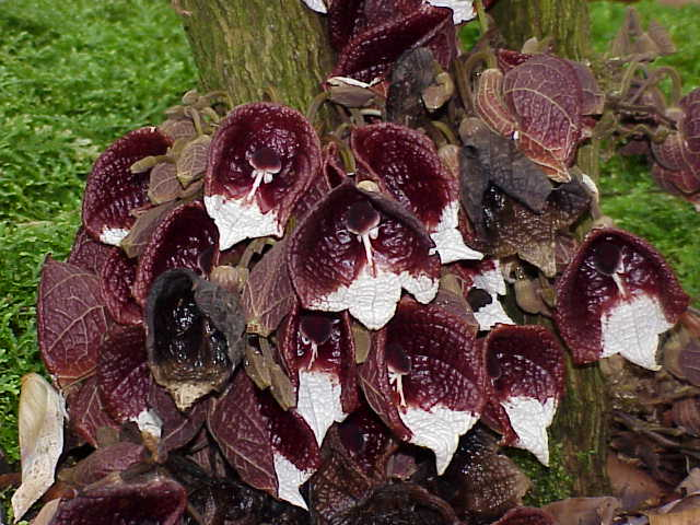 Species: Aristolichia arborea Family: Aristolochiaceae Image No. 2